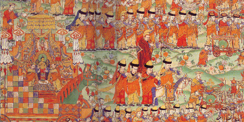 The Maitreya Procession at Lamyn Gegeen Khuree. Late 19th - early 20th century.